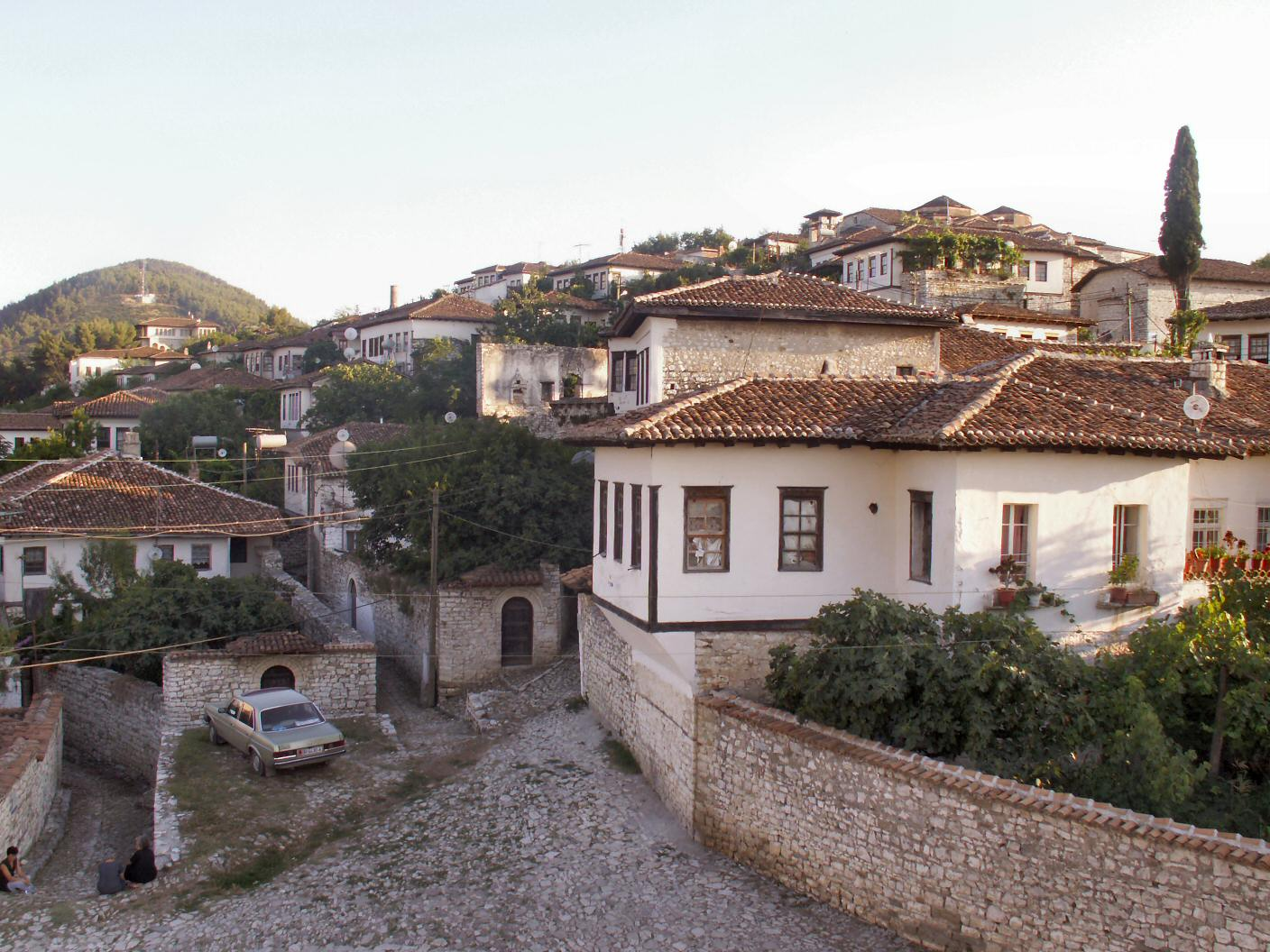 old town of berat albania 2016